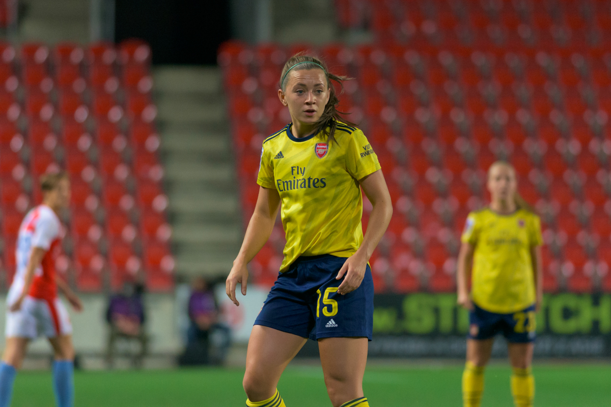 Katie McCabe during the match vs Slavia Praha (women), October 2019